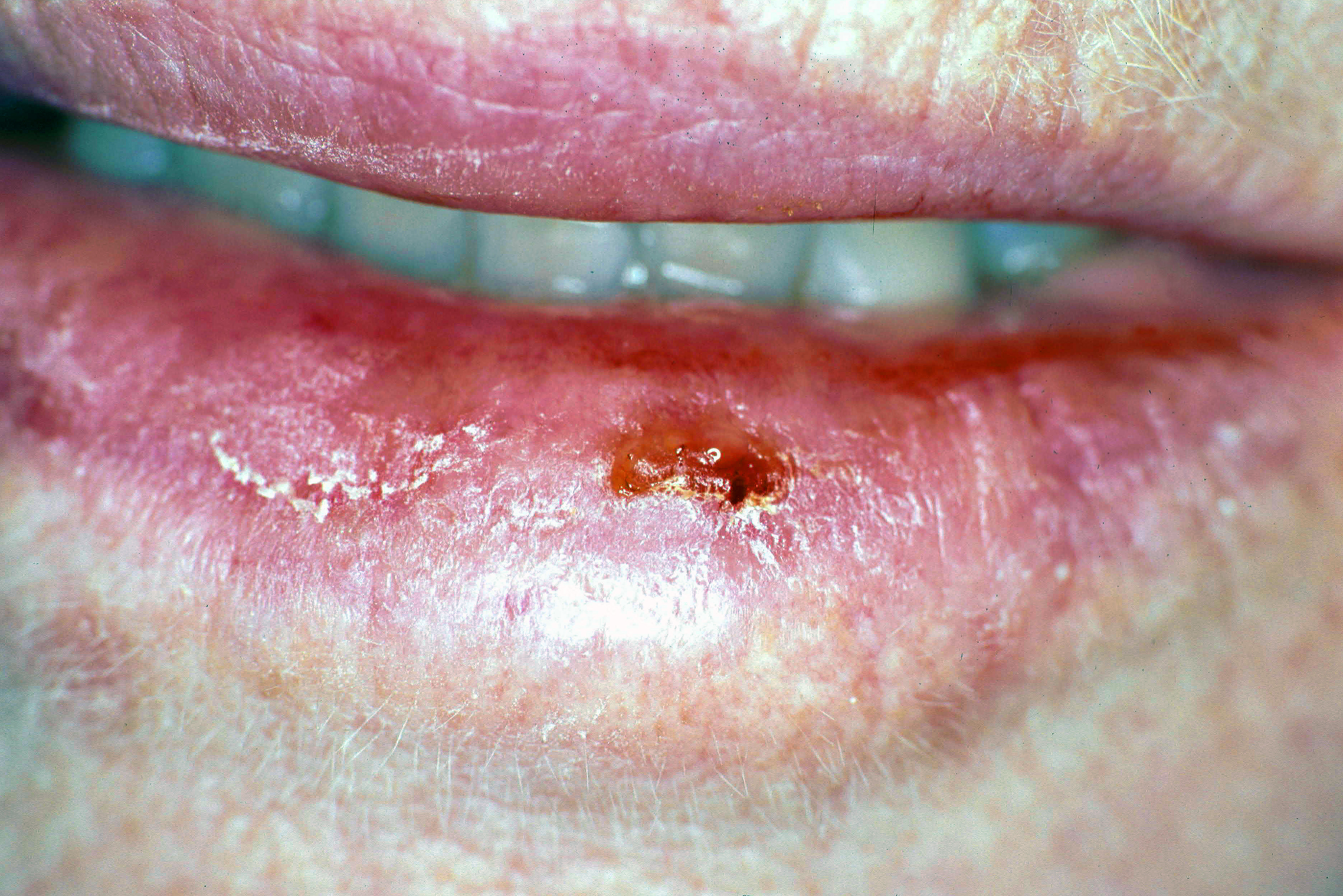 Squamous cell carcinoma of the left lower lip